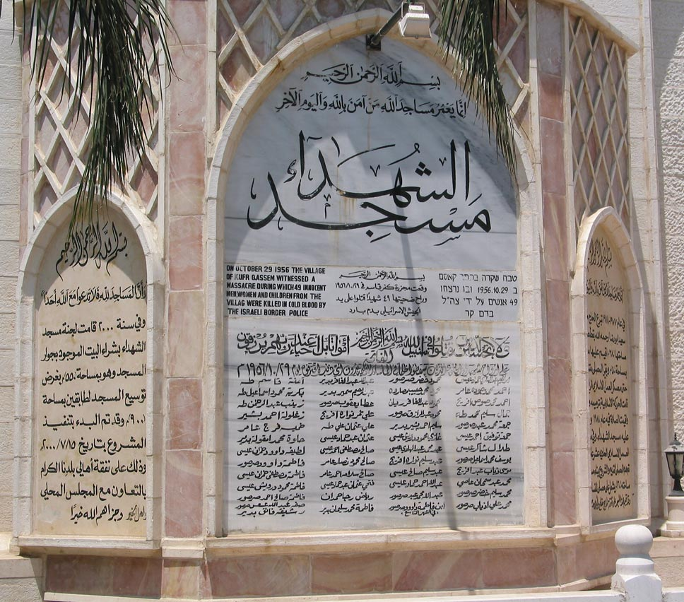 October 29, 1956 - Memorial on the mosque of Kafr Qasim (Kfar Qassem) marking the Kafr Qasim massacre